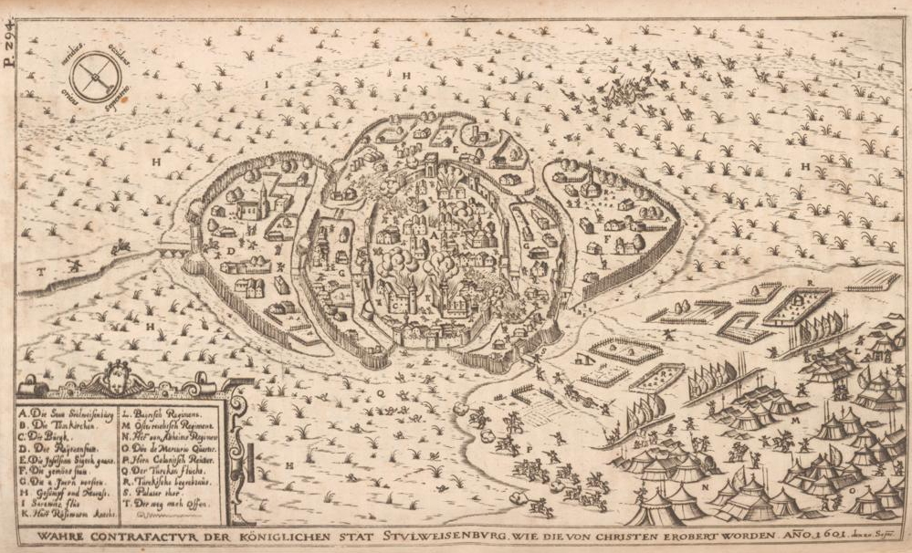 Depiction of the interim Christian reconquest of Székesfehérvár in 1601, giving an impression of the real destructions Translation of the German title: True depiction of the royal city of S., as (it was) conquered by the Christians anno 1601